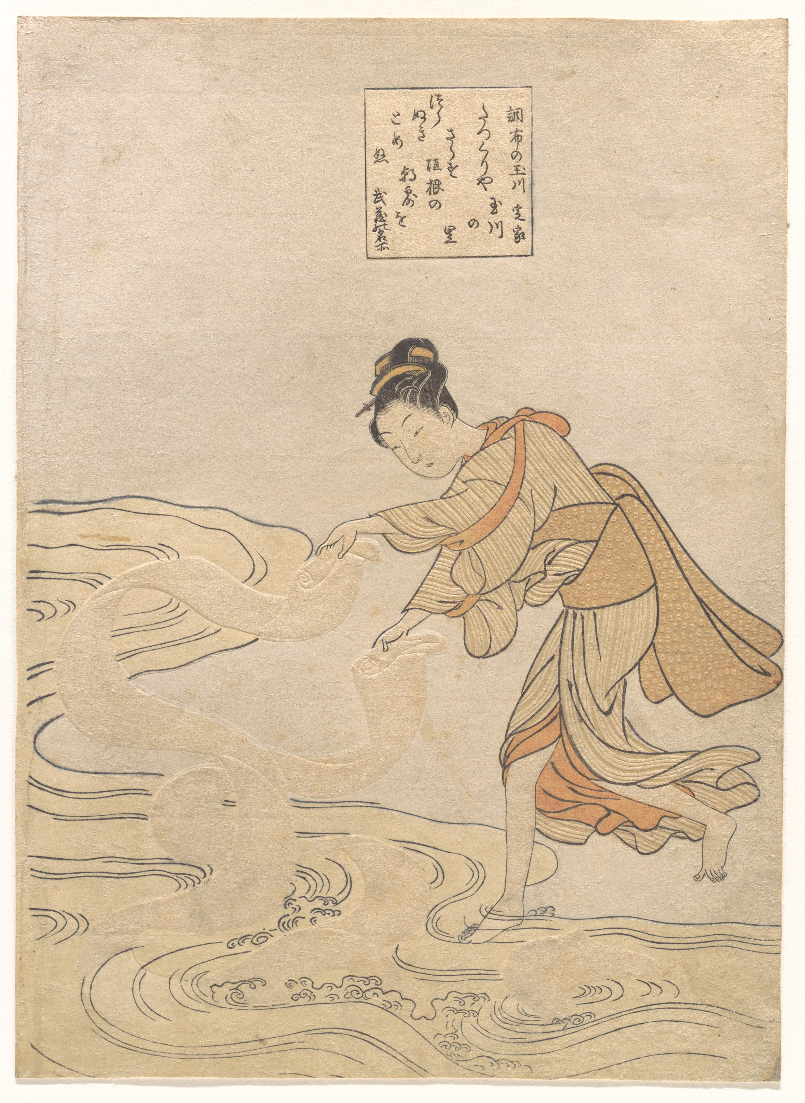 Ukiyo-e print by Japanese artist Suzuki Harunobu, featuring prominent embossed areas.